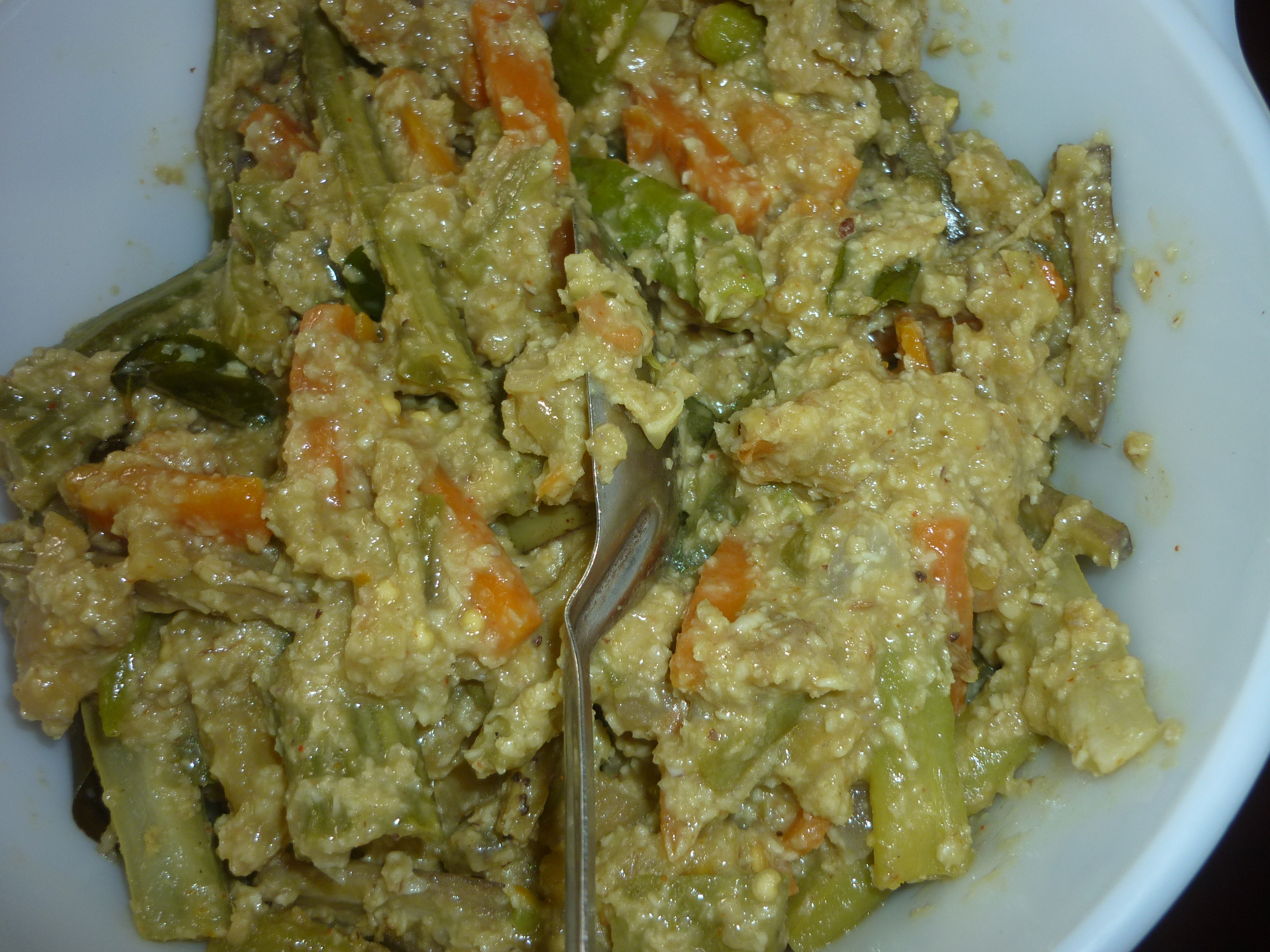 A kari in kerala.